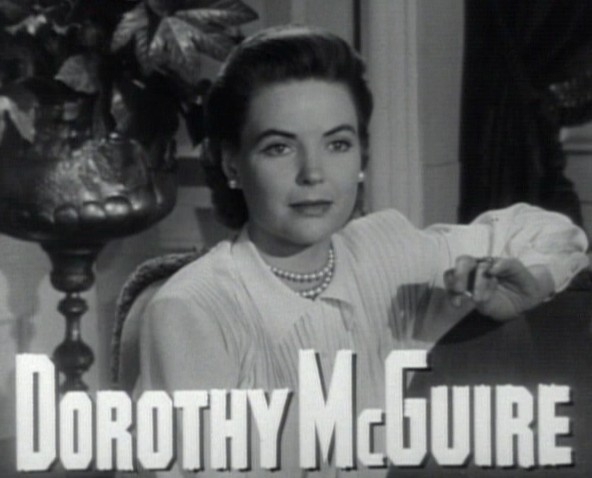 Cropped screenshot of Dorothy McGuire from the trailer for the film Gentleman's Agreement.